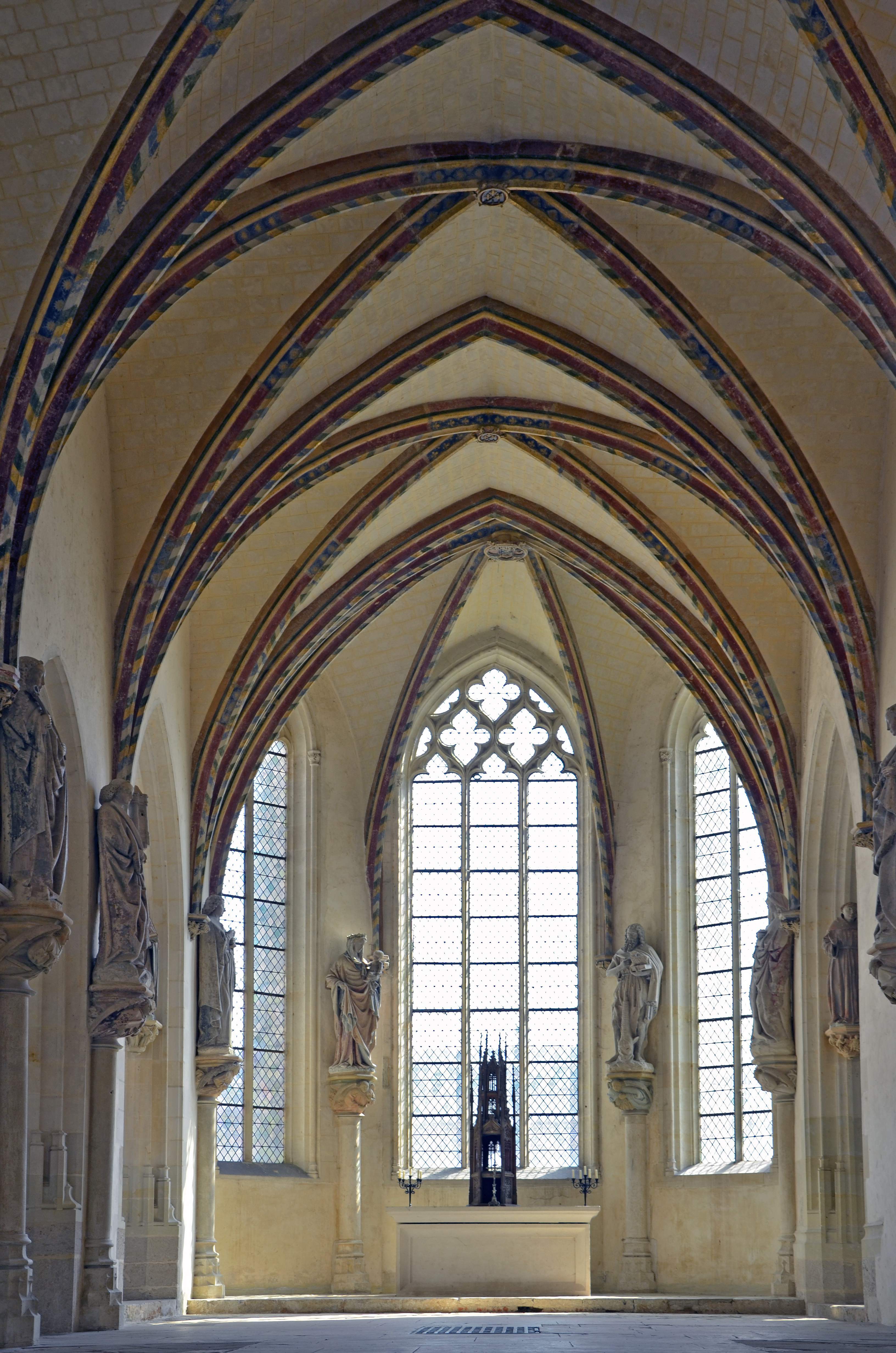 Sainte-Chapelle of the castle of Châteaudun, Eure and Loir, Center, France